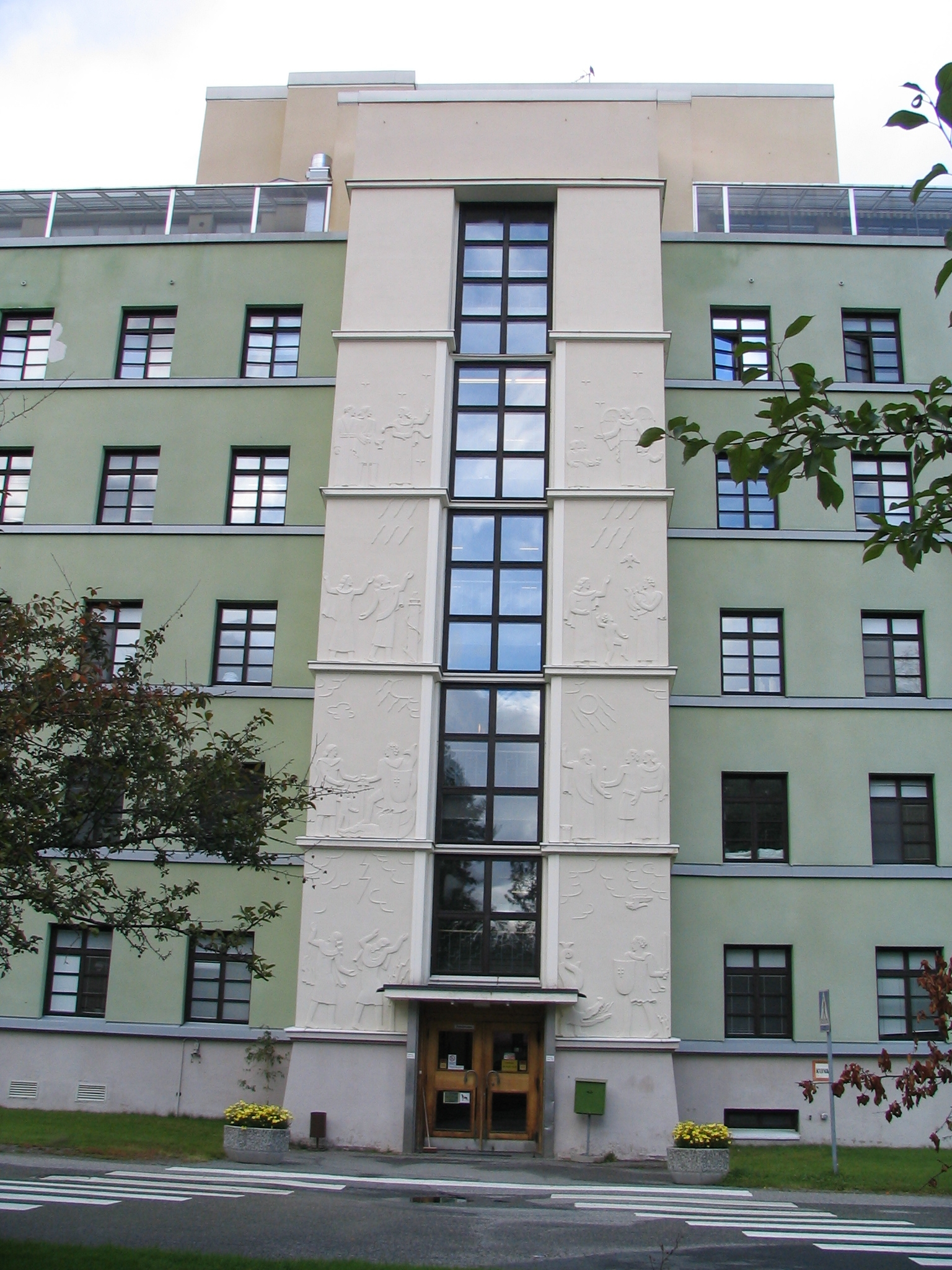 Kinkomaa Hospital, Muurame, Finland. The architect was Jussi Paatela.